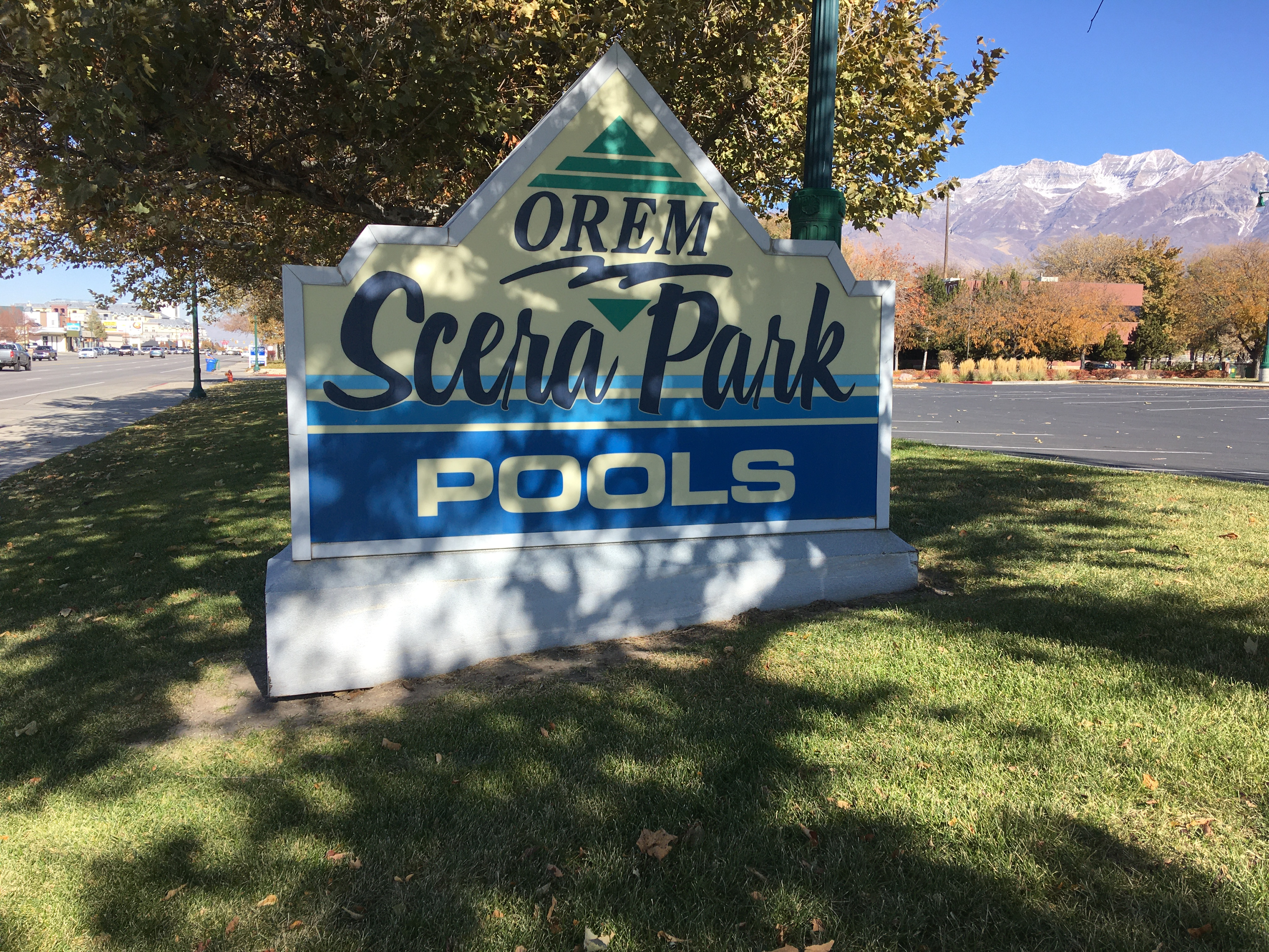 Scera Park sign in Orem, Utah on State street